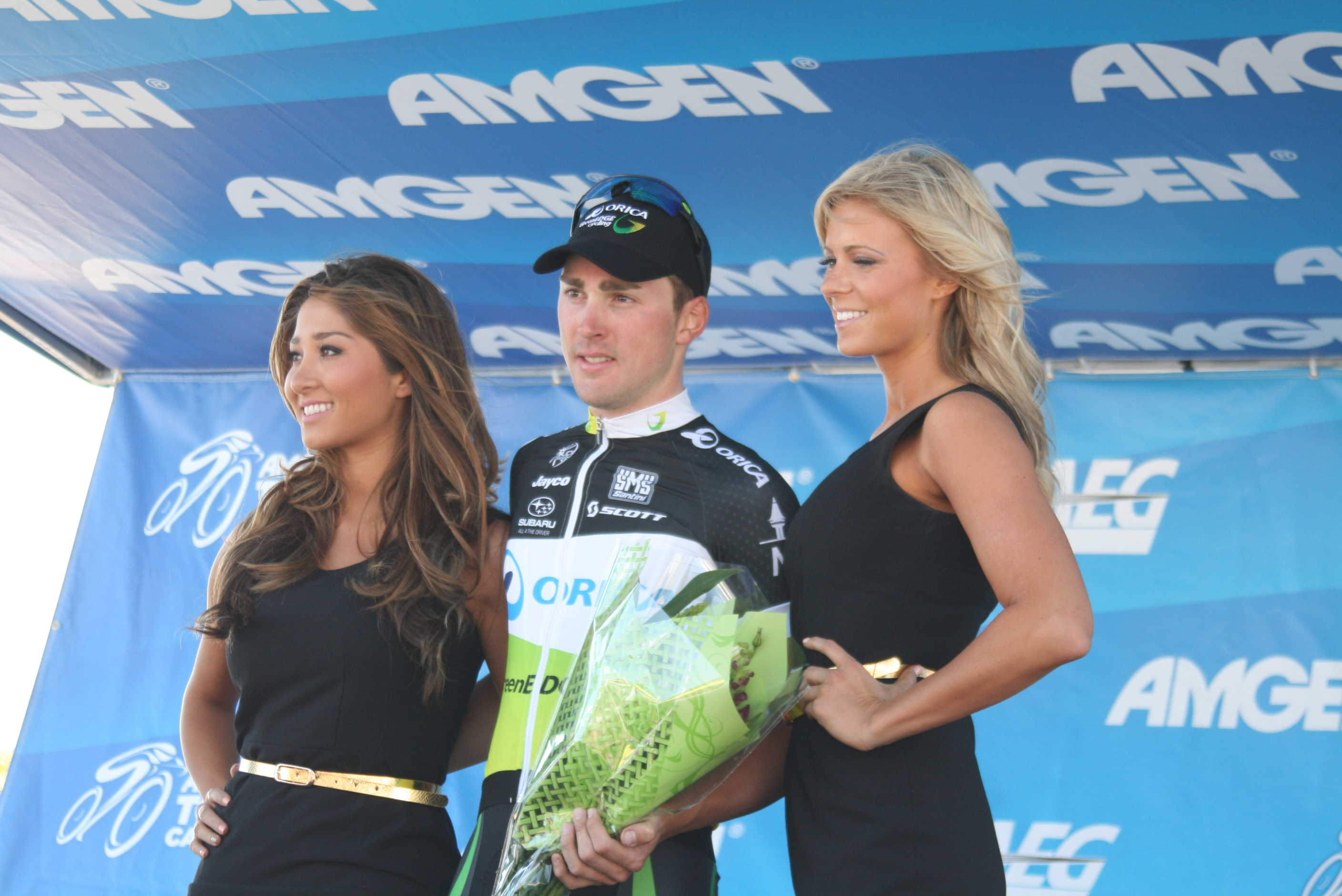 Leigh Howard, Tour of California 2012